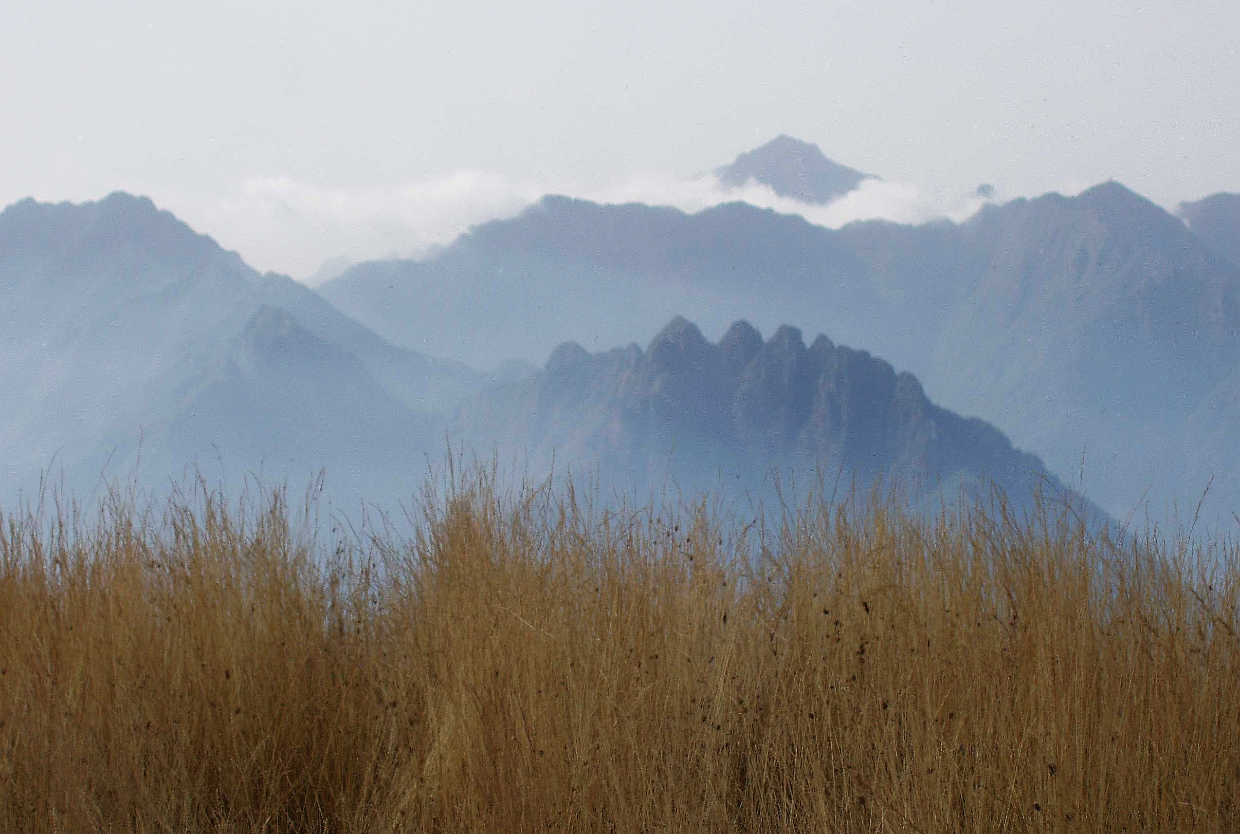 Denti di Gavala (1676 m, foreground) and Monte Barone (2044 m, background) seen fron Pizzo Tracciora (VC, Italy)